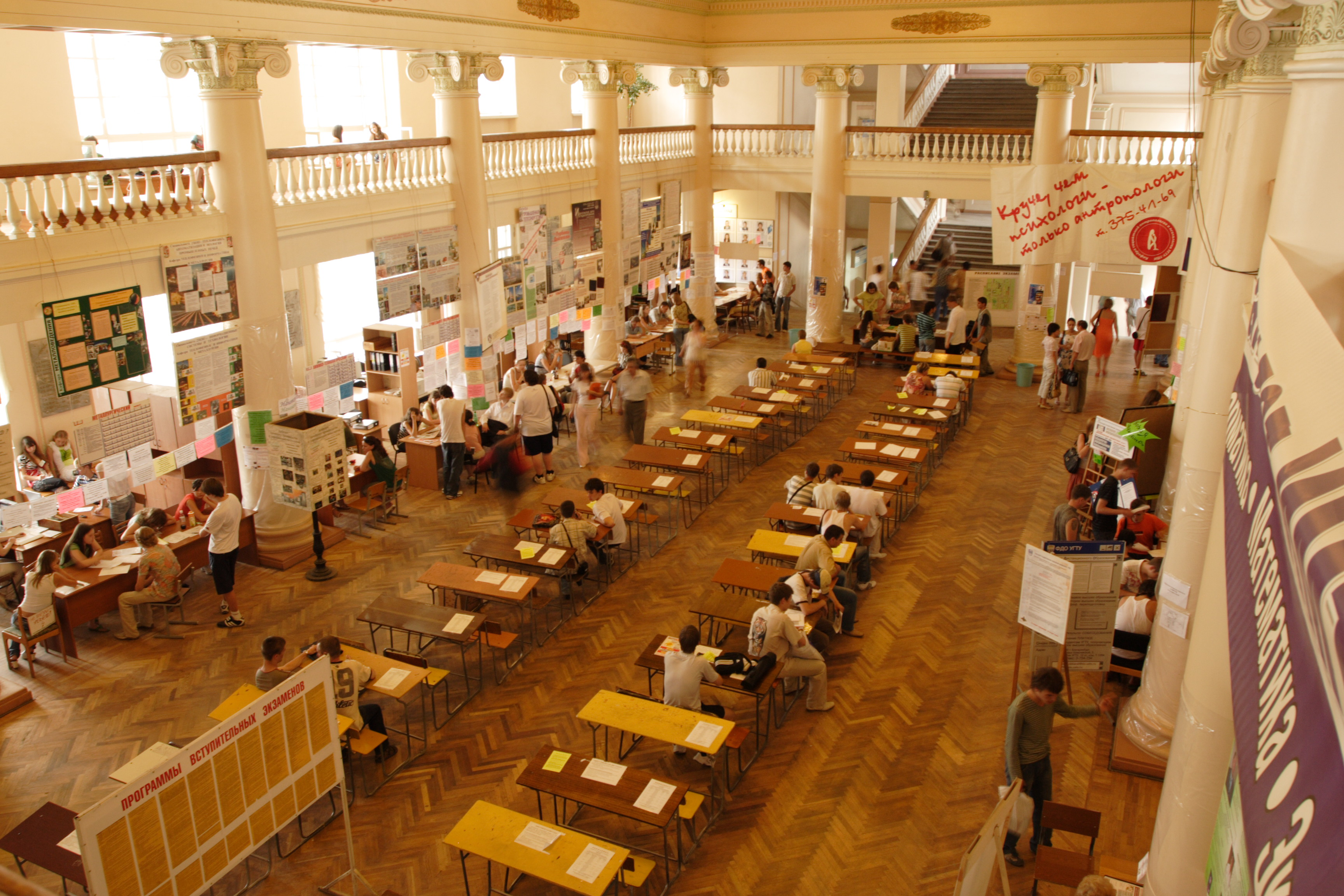 Information day in the Ural state Uni (Yekaterinburg)